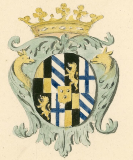 Coat of Arms of Zwake, Borssele